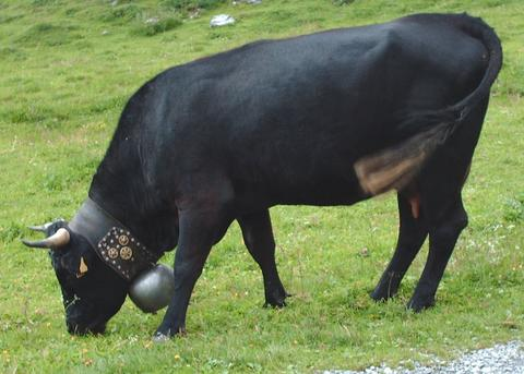 Eringer cow grazing on Engstligenalp